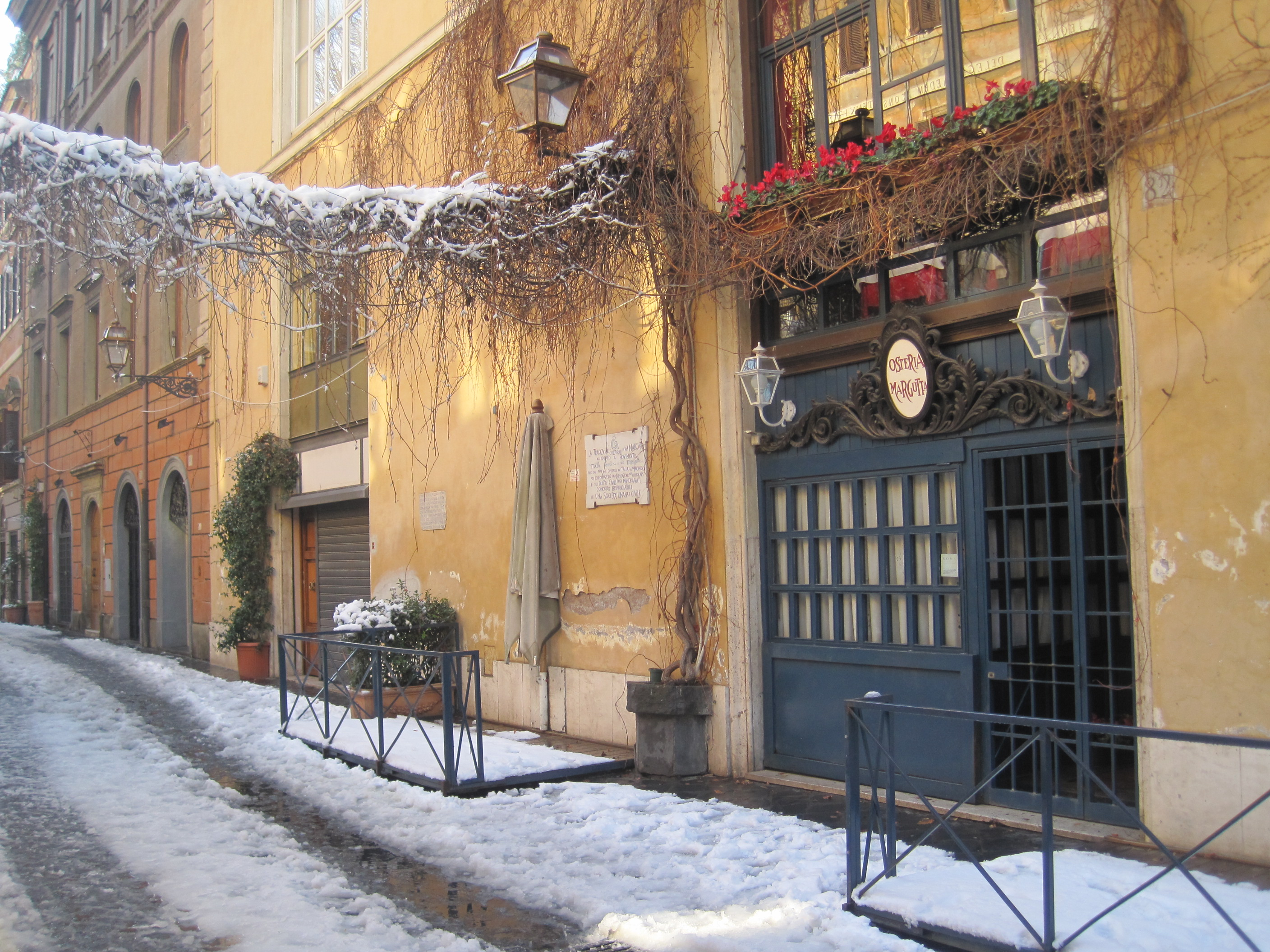 Via Margutta under the snow 04 february 2012